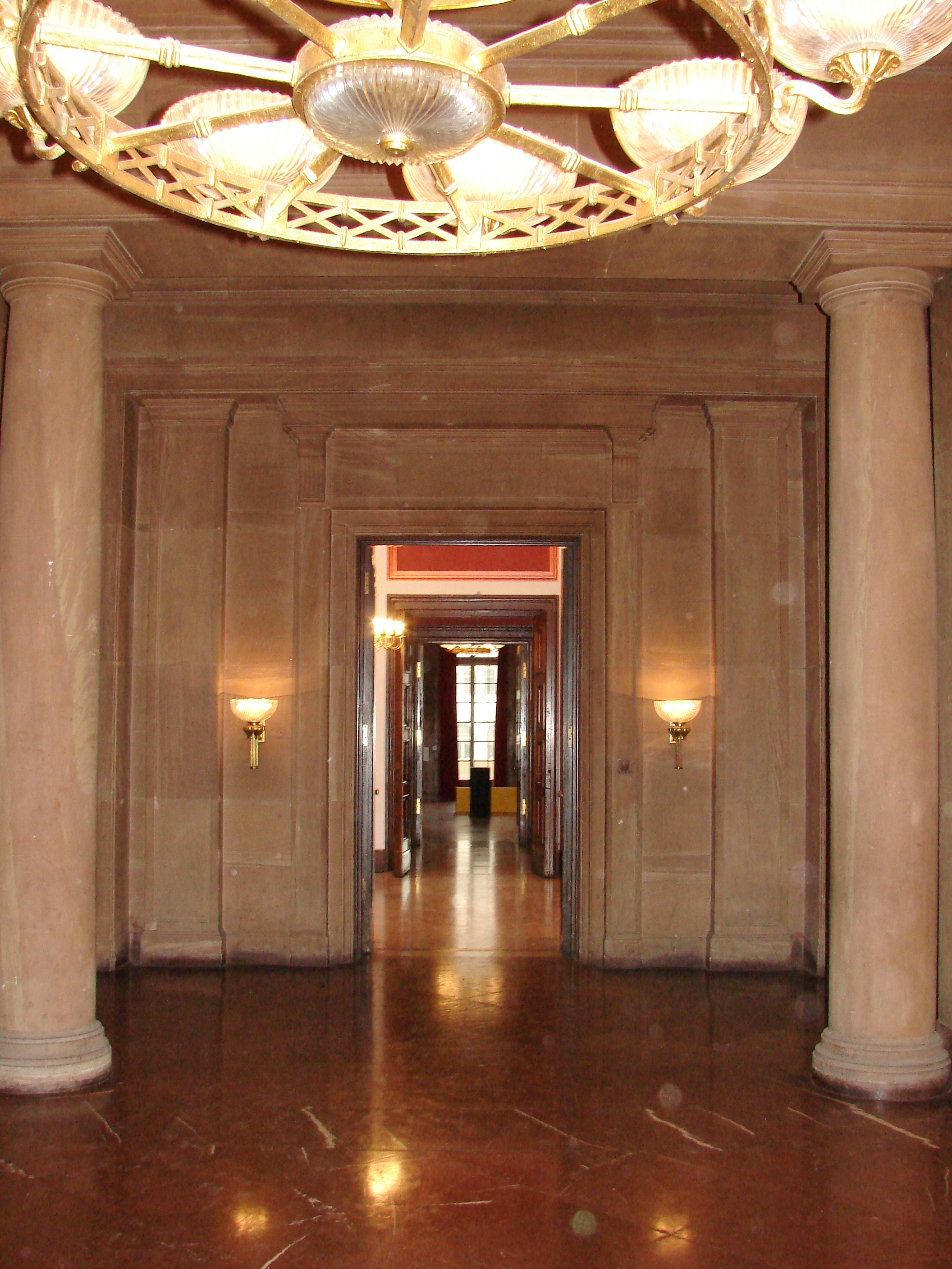 Enfilade leading to Adolf Hitler's Cabinet in Poznań Imperial Castle